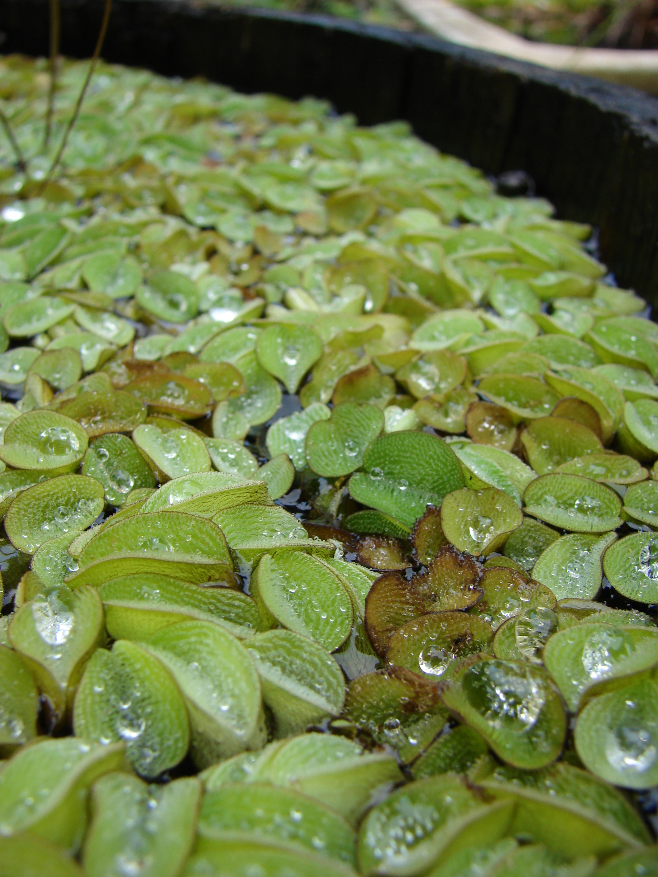 Salvinia molesta (habit in water garden). Location: Maui, Hoolawa Farms